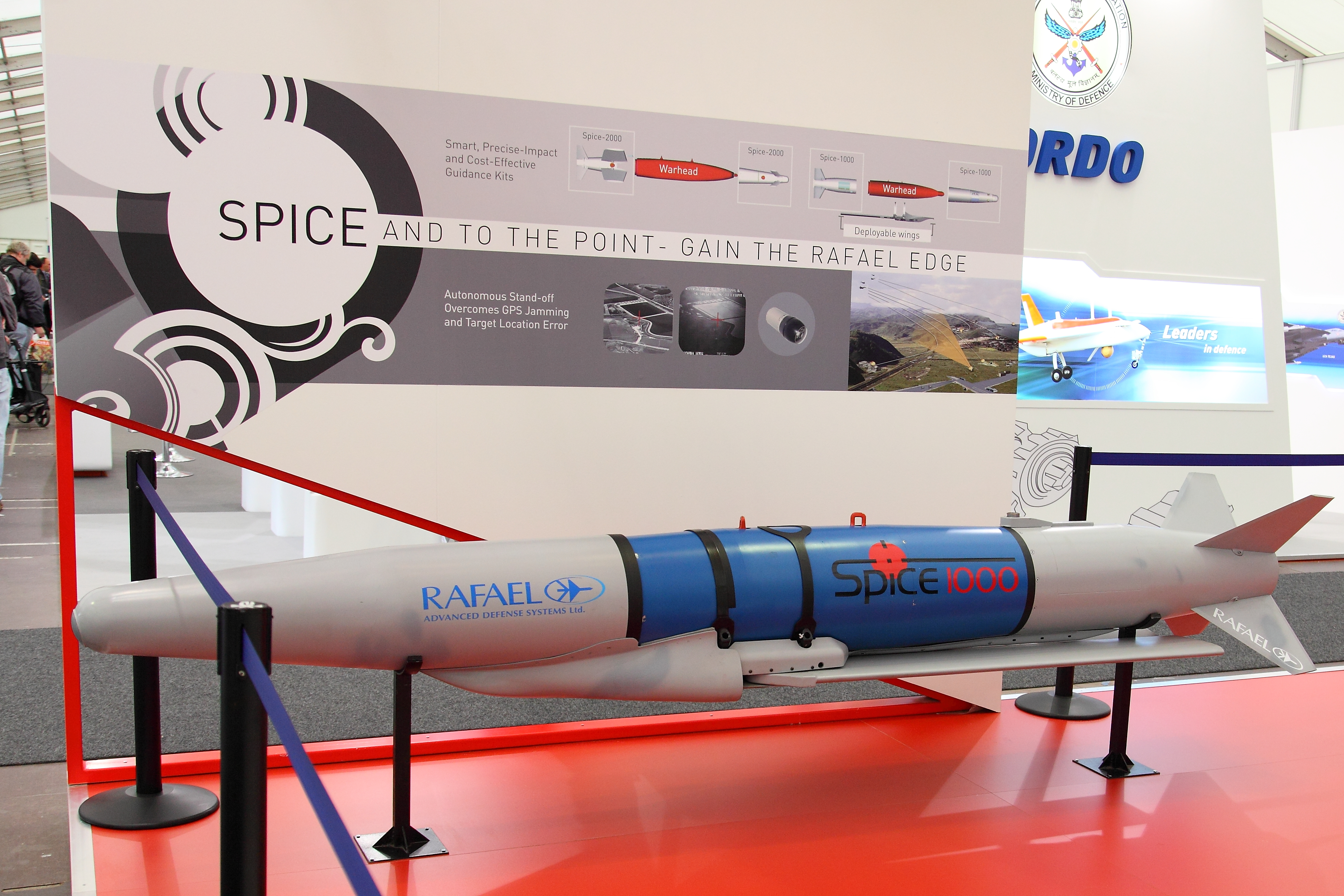 ILA Berlin Air Show 2012; Rafael's Spice 1000 guided weapon carries a 500 kg Mk 83 warhead; attacking targets at ranges extended beyond 60 km